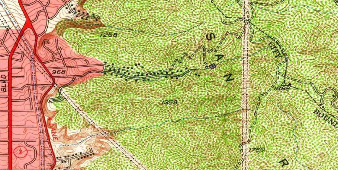 Zoom on the los encinos avenue in 1950